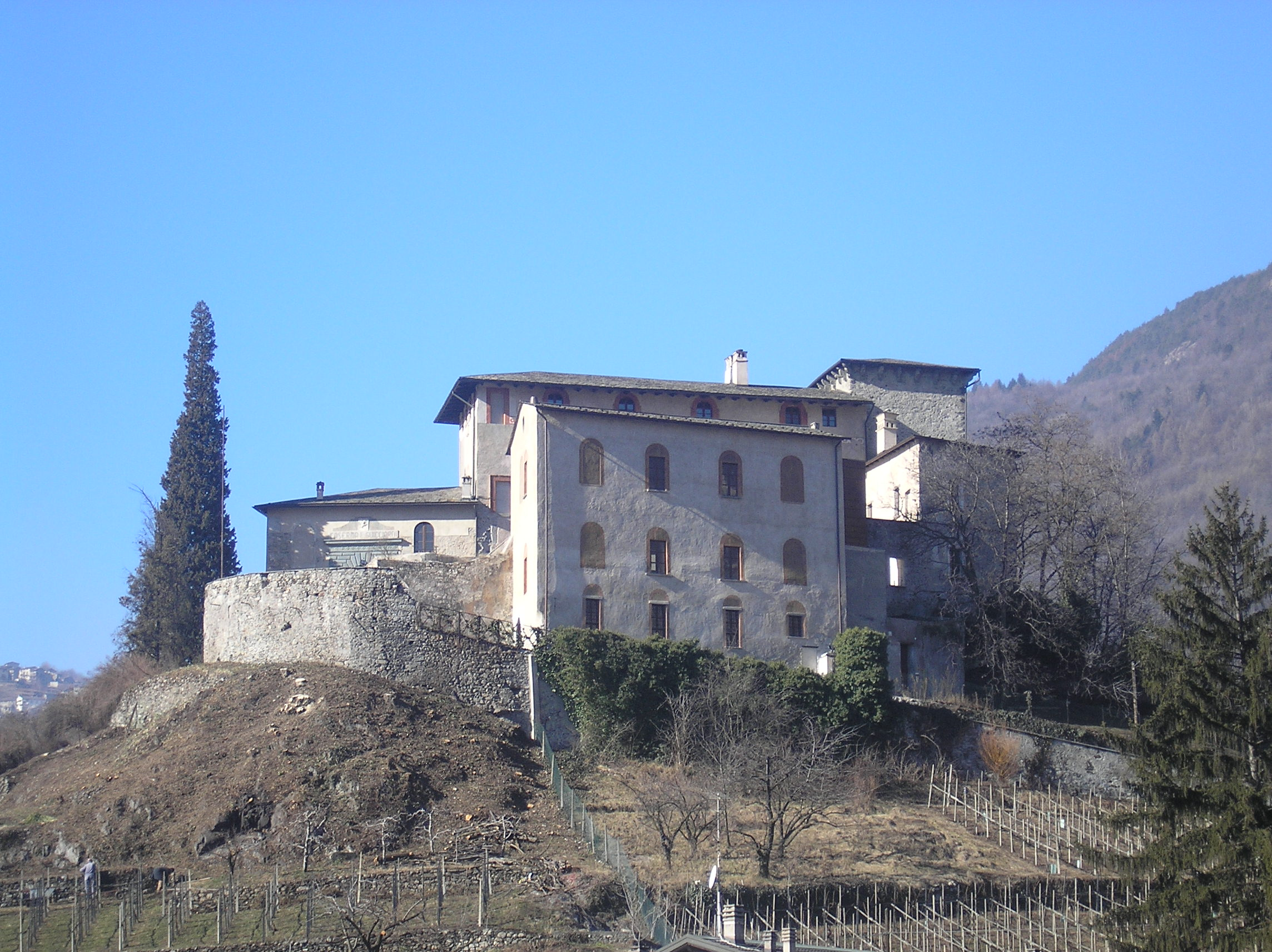 Masegra Castle east view